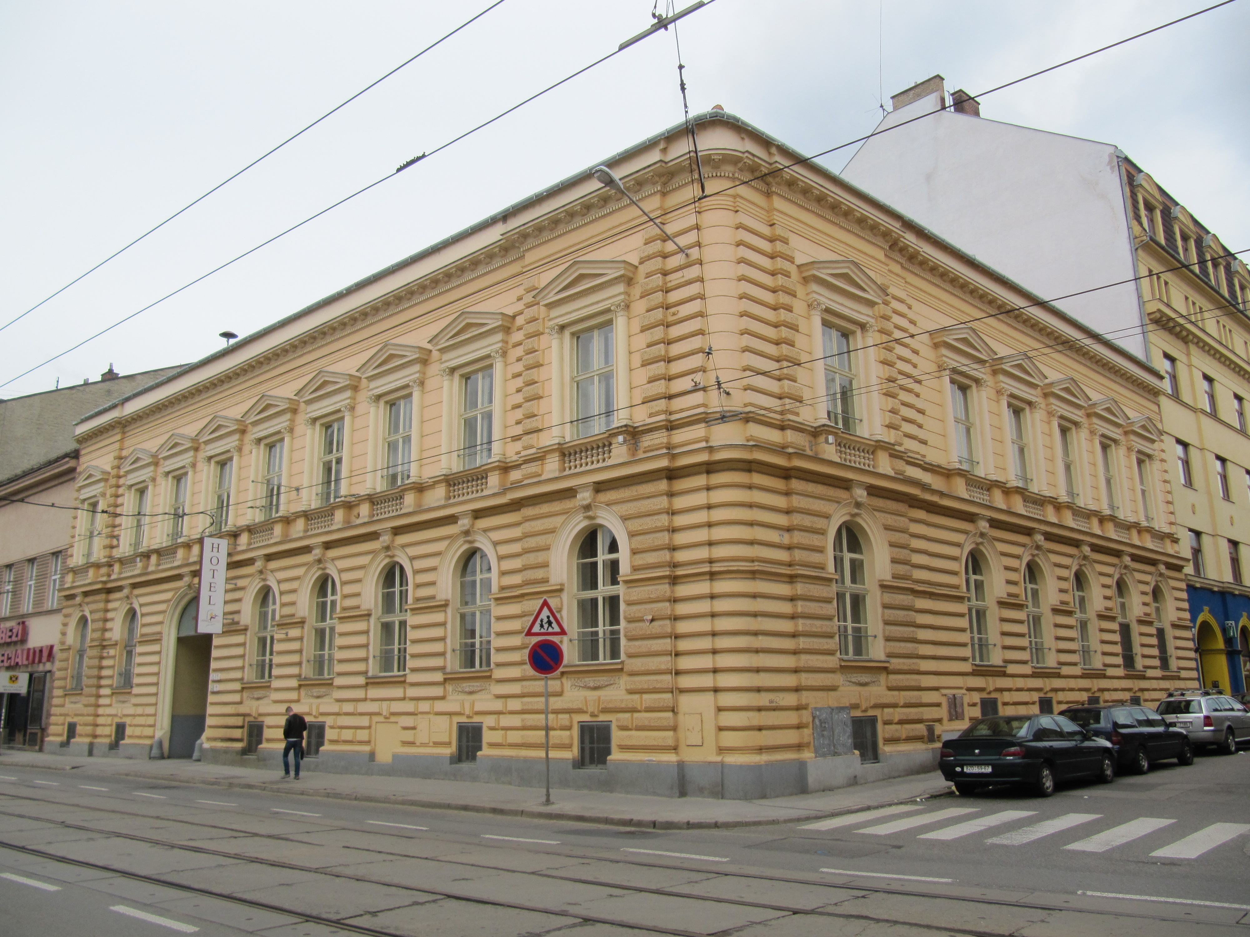 Brno, Czech Republic, part Zábrdovice, Cejl street.